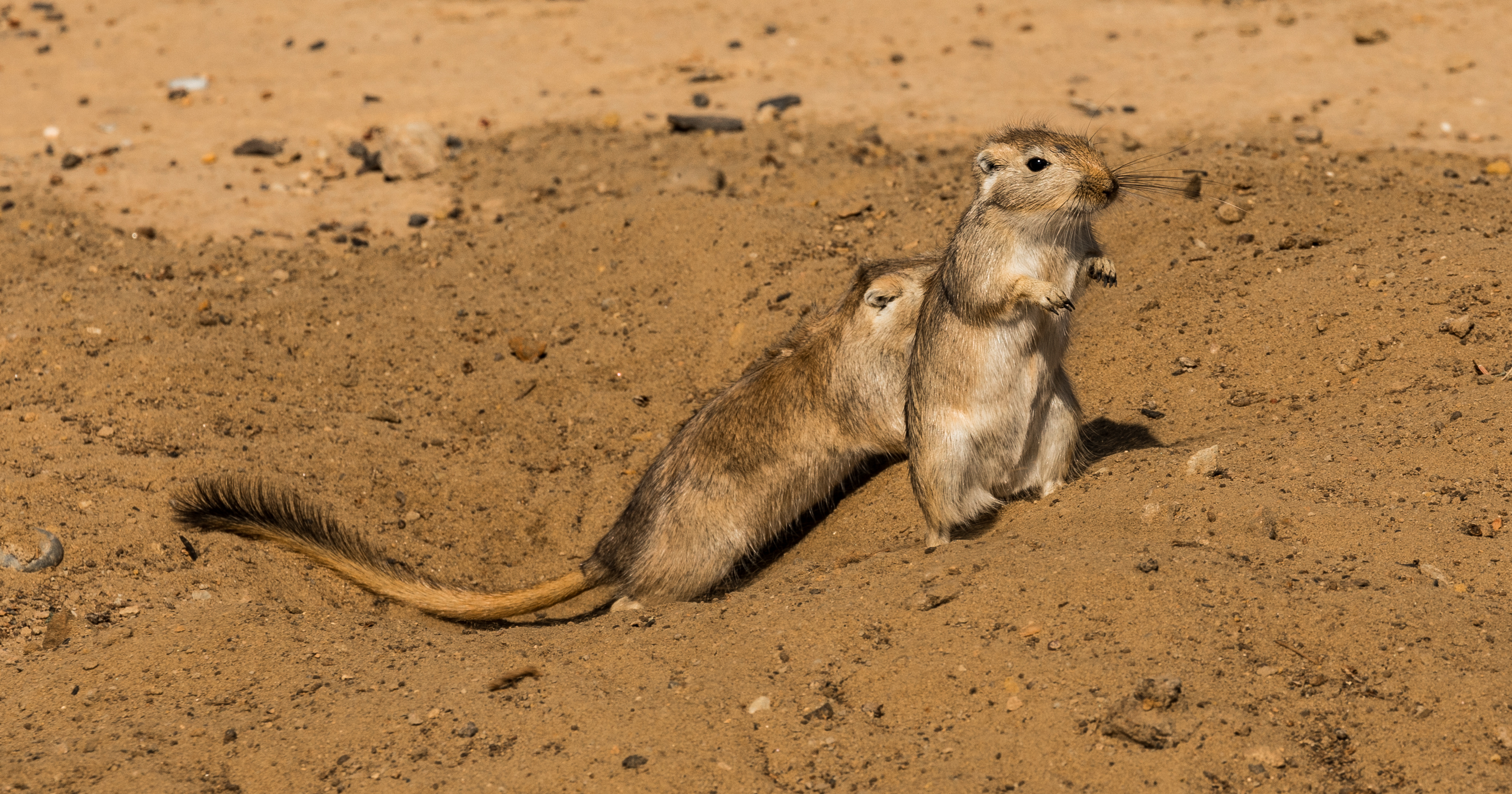 Midday Jird, Meriones meridianus, Baikonur Cosmodrome, Kazakhstan